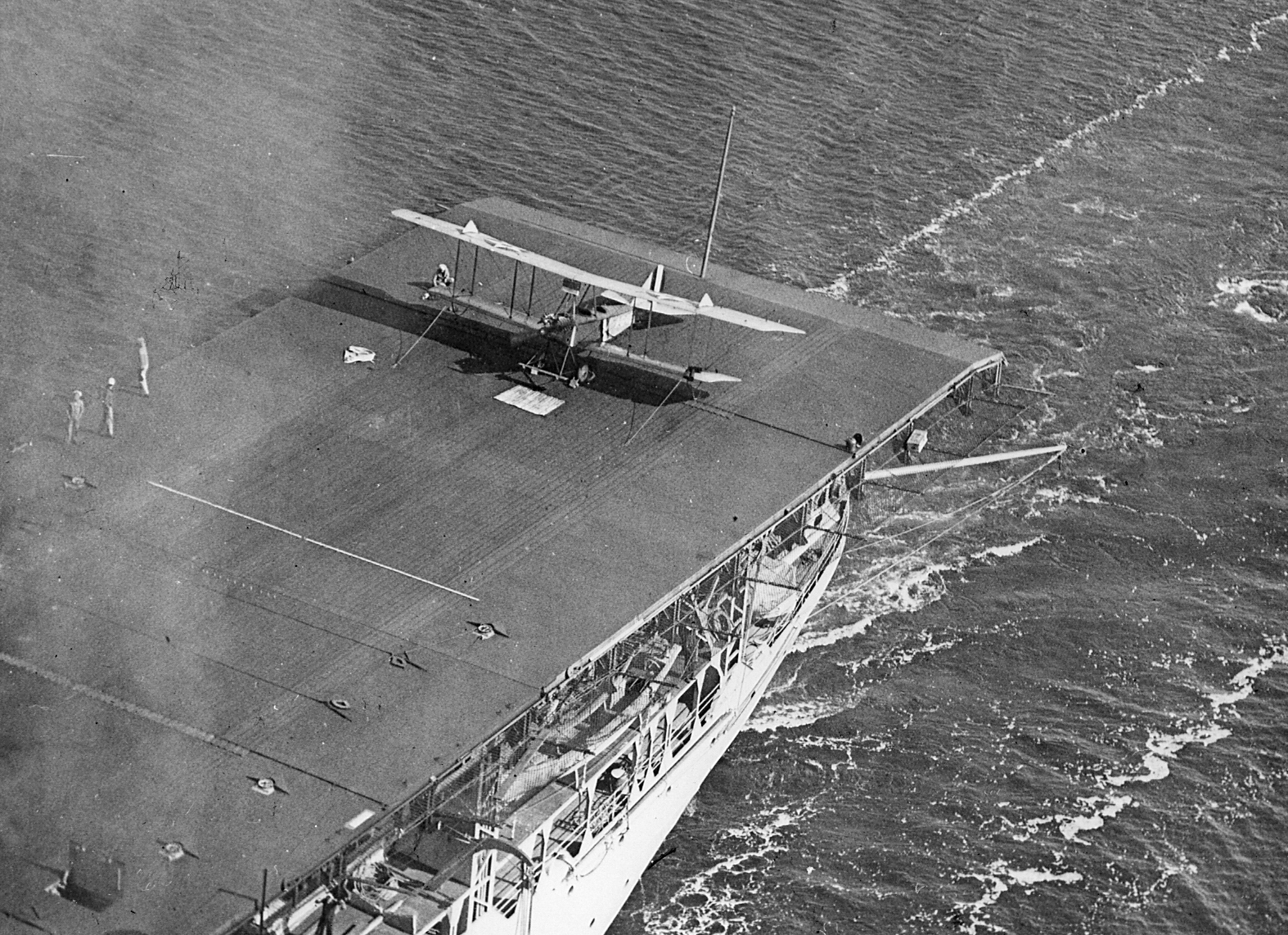 A U.S. Navy Aeromarine 39B spotted on the aft section of the flight deck of the aircraft carrier USS Langley (CV-1) steaming near Naval Air Station Pensacola, Florida (USA). It was this type aircraft flown by Lieutenant Commander Godfrey de Courcelles Chevalier that on 26 October 1922 made the first ever landing on board the ship.